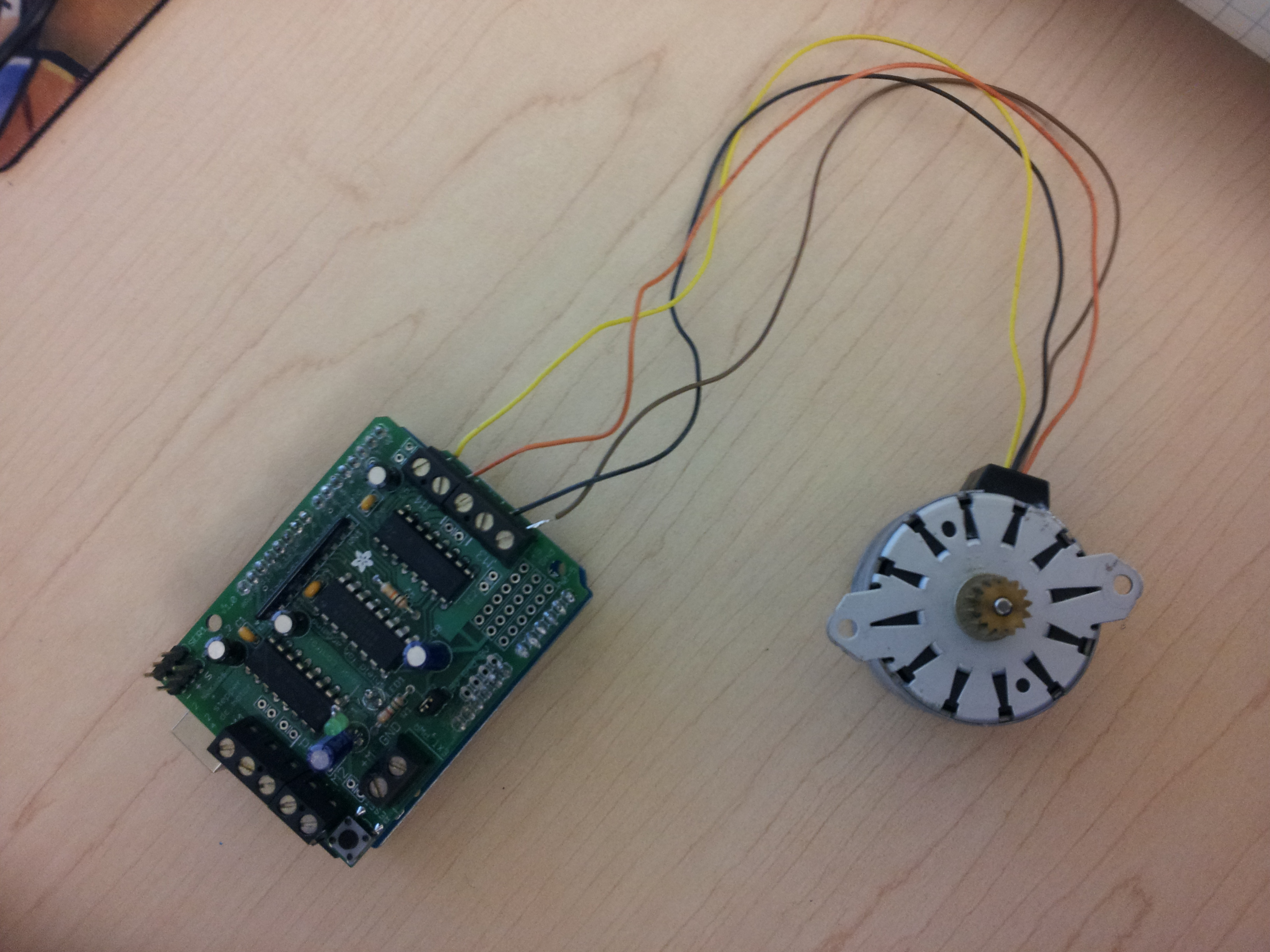 Cannon RH7-1173 01 12 24V 96Y20